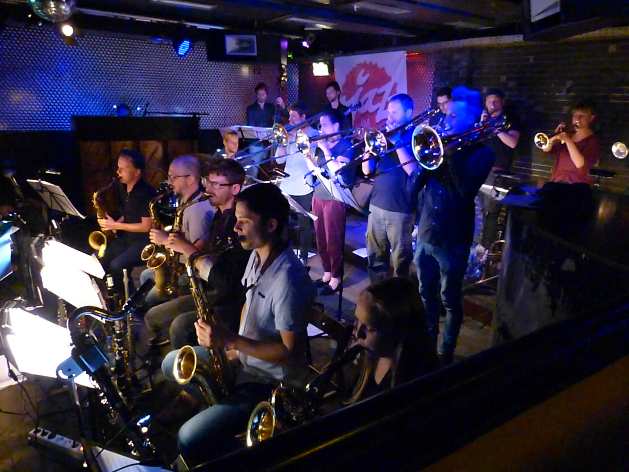 Subway Jazz Orchestra feat. Florian Ross (arr,comp) in the concert "Big Company", September 12th, 2018 at Subway (Cologne), Germany, with Shannon Barnett and others